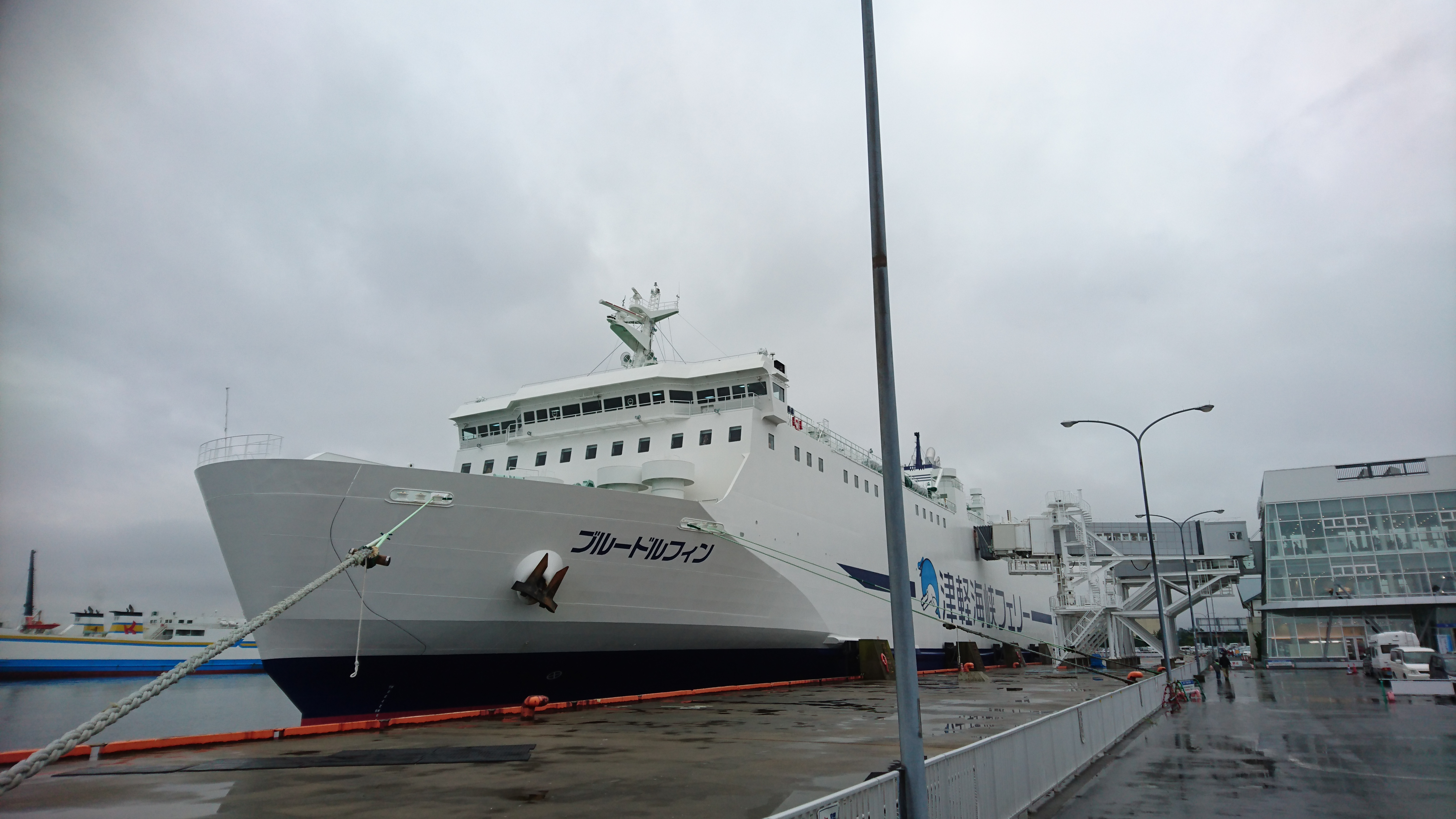 Tsugaru Kaikyo Ferry New Blue Dolphin in Aomori Ferry Terminal